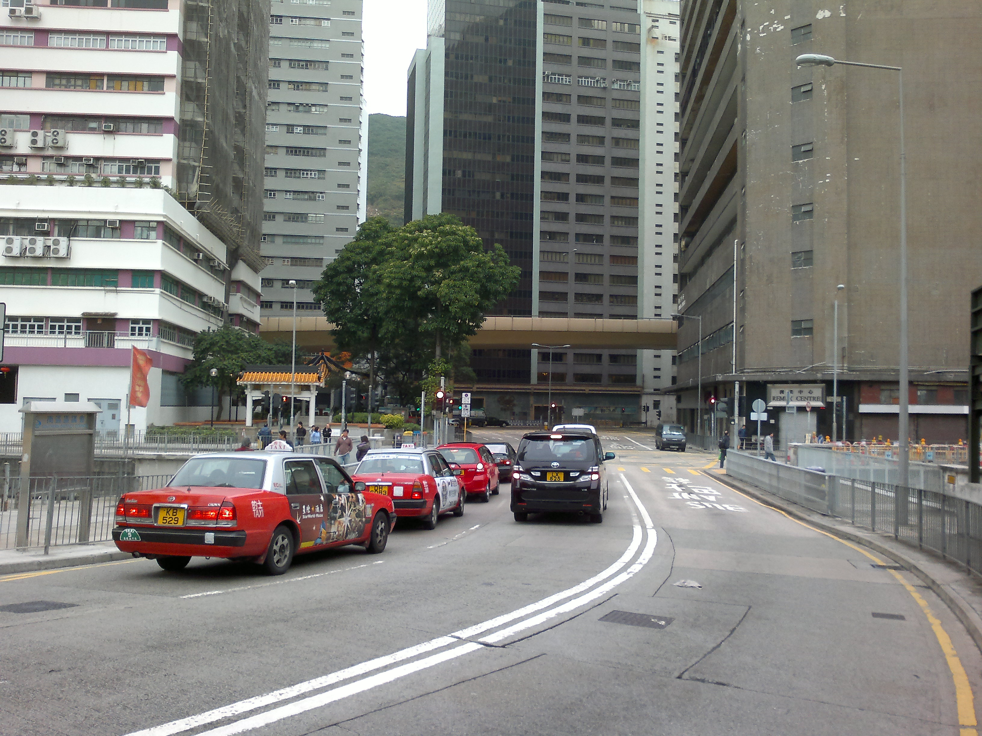 Nam Long Shan Road near Heung Yip Road